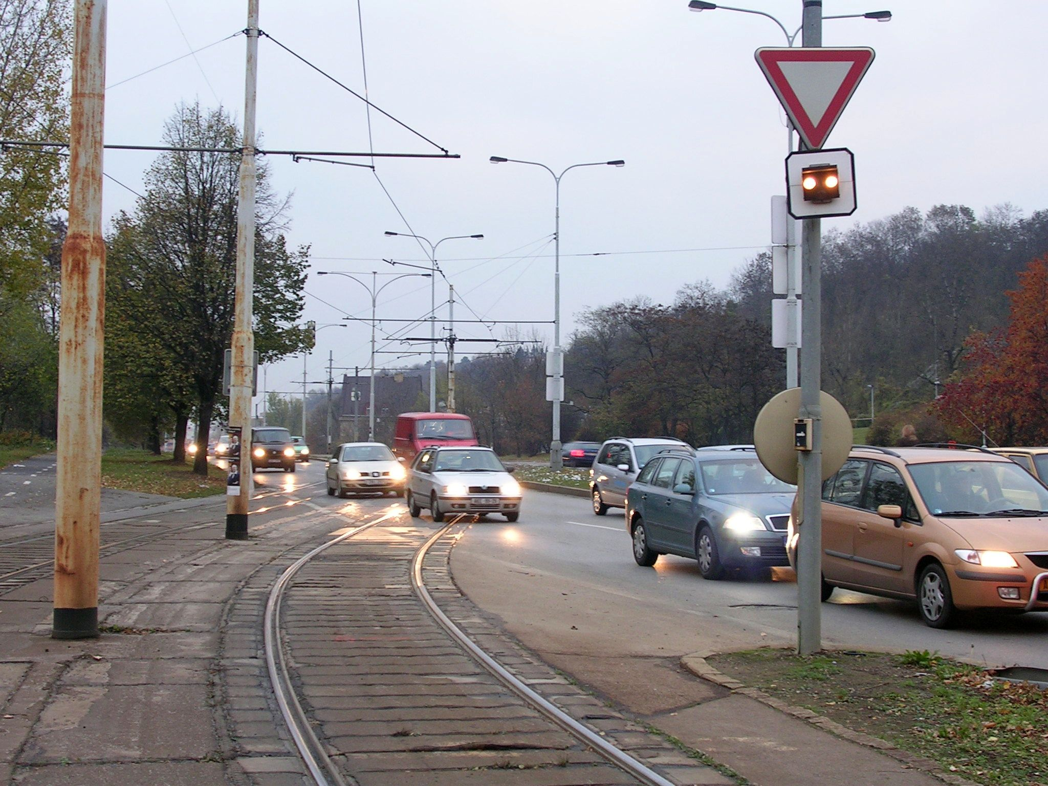 Tram traffic lights, Prague. - Google Maps - Google Earth